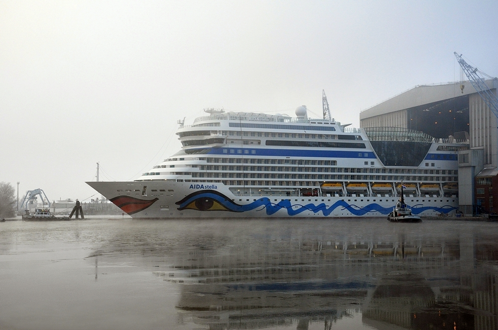 The AIDAstella from AIDA Cruises at the Meyer Werft